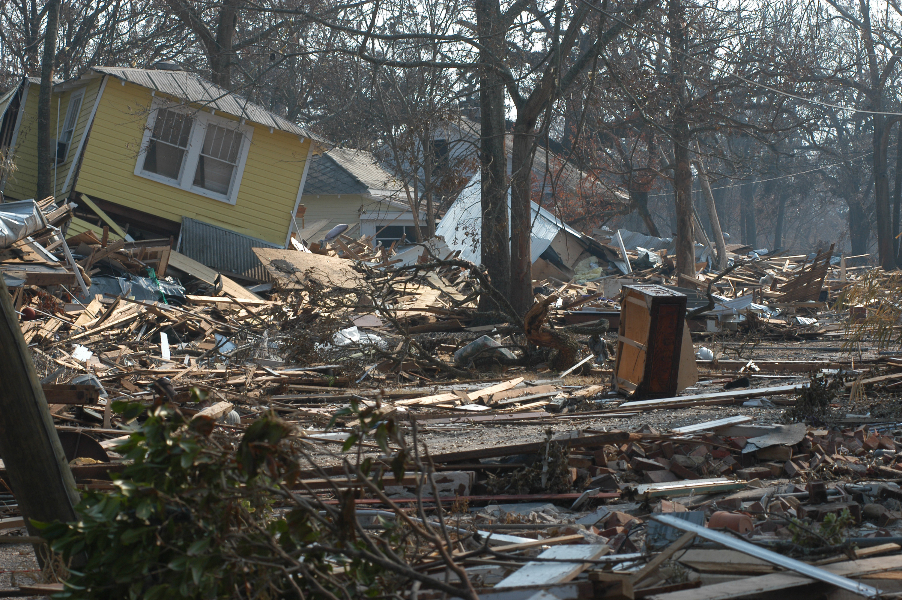 Biloxi, Miss., September 3, 2005 -- Damage and destruction to houses in Biloxi, Mississippi. Hurricane Katrina caused extensive damage all along the Mississippi gulf coast. FEMA/Mark Wolfe